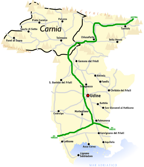 Situation map of the Carnia in Udine Province, Italia